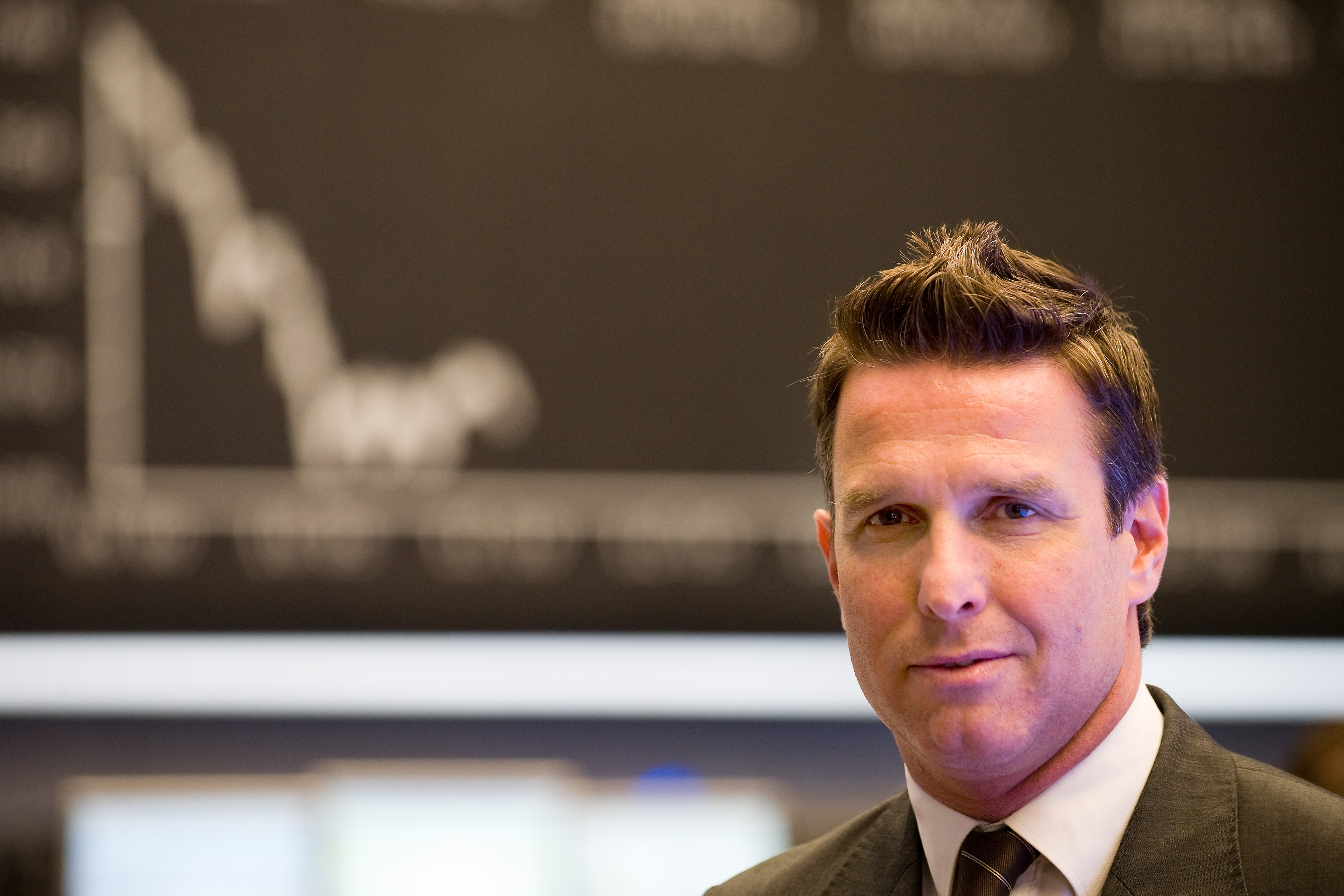 Oliver Roth